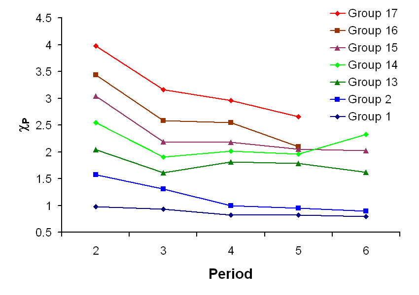 The variation of Pauling electronegativity as one descents the groups of the periodic table; x-axis gives period numbers